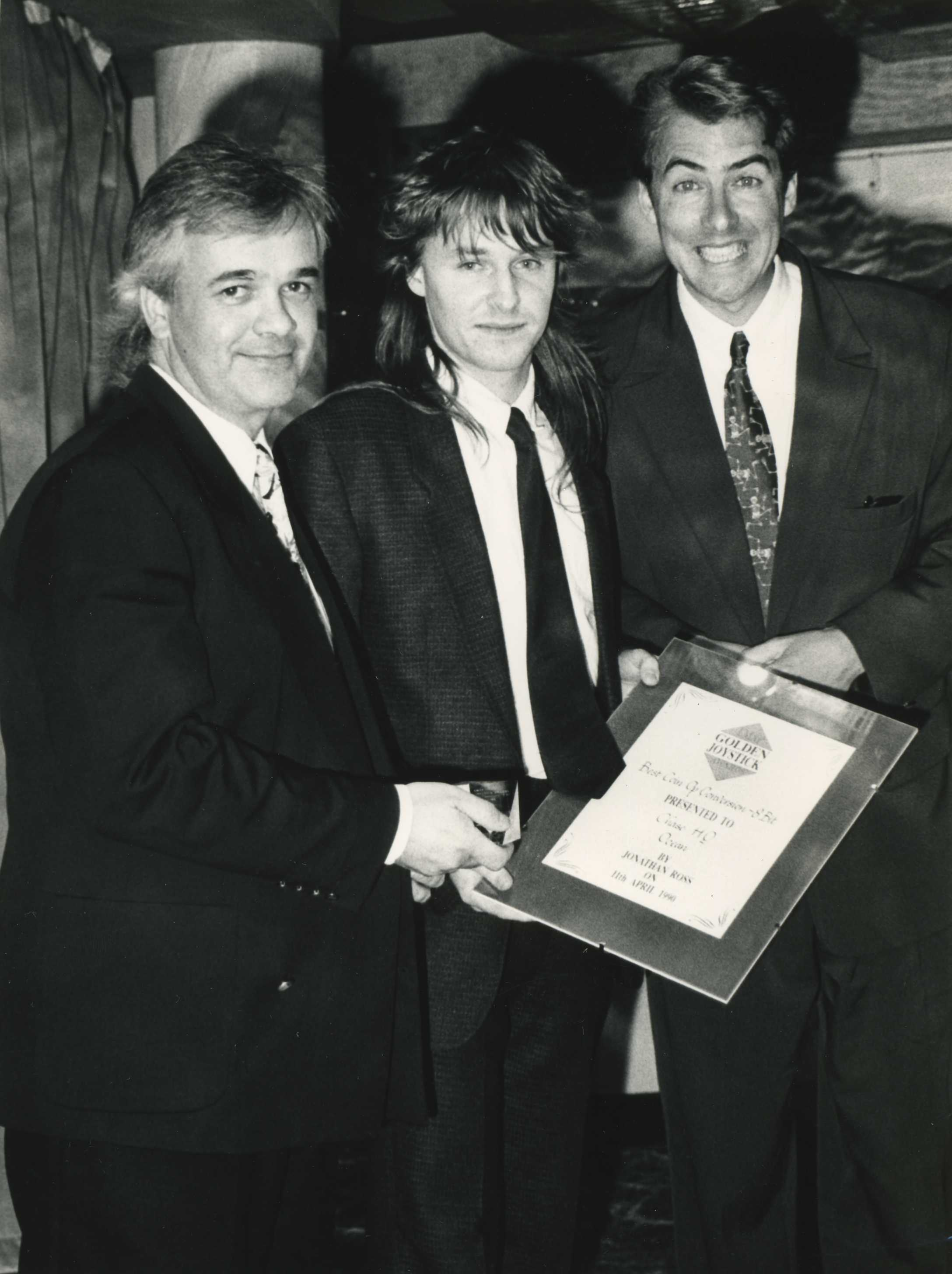 "1990 Golden Joystick Awards. Pictured is Paul Patterson from Ocean Software, and Jonathan Ross, who was the presenter of the Golden Joysticks that year. The award being presented is best 8-bit coin-op conversion (which was won by Ocean Software's Chase HQ)."